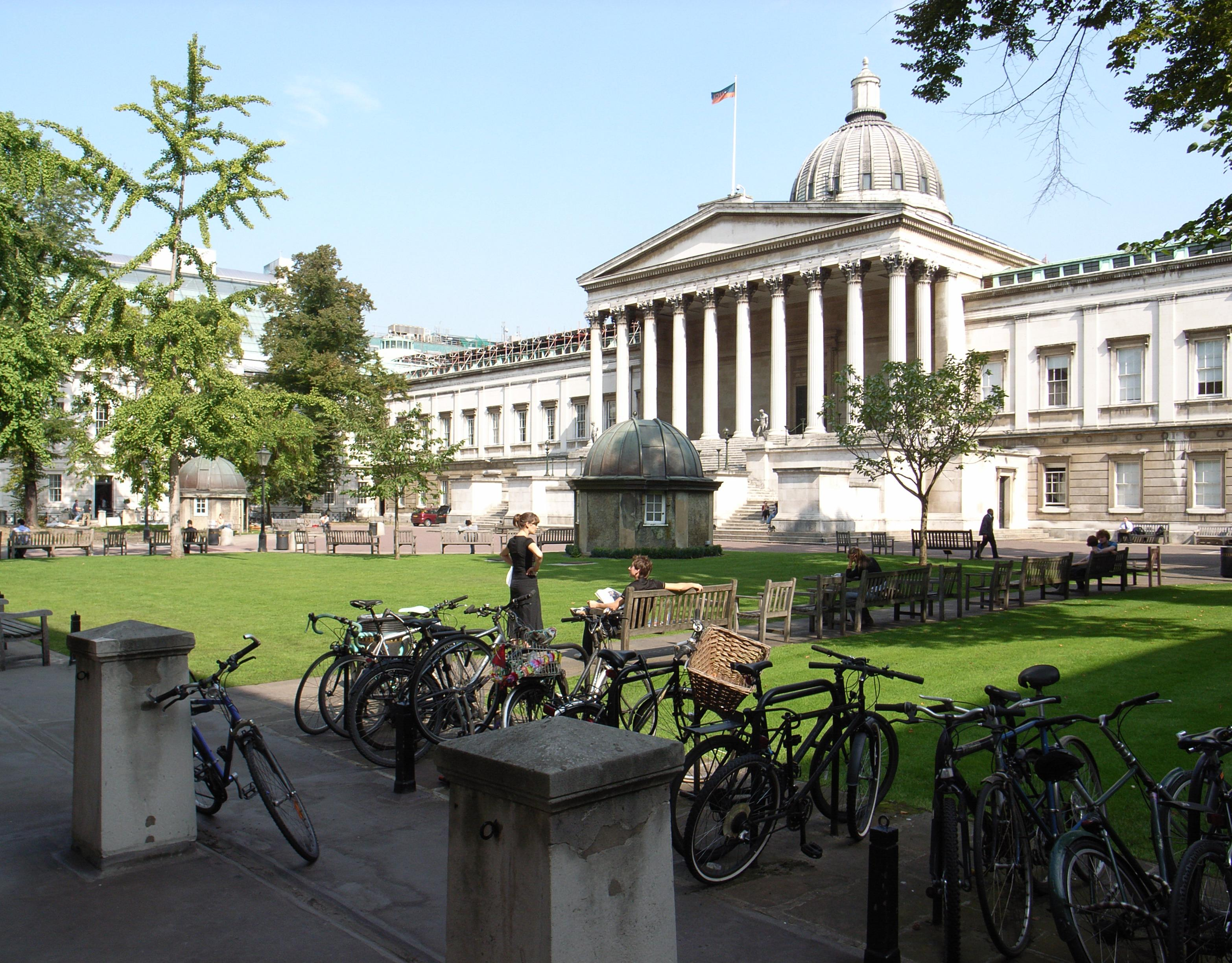 The Wilkins Building, University College London, Gower Street, Bloomsbury, London, England. Designed by William Wilkins (1827-9).